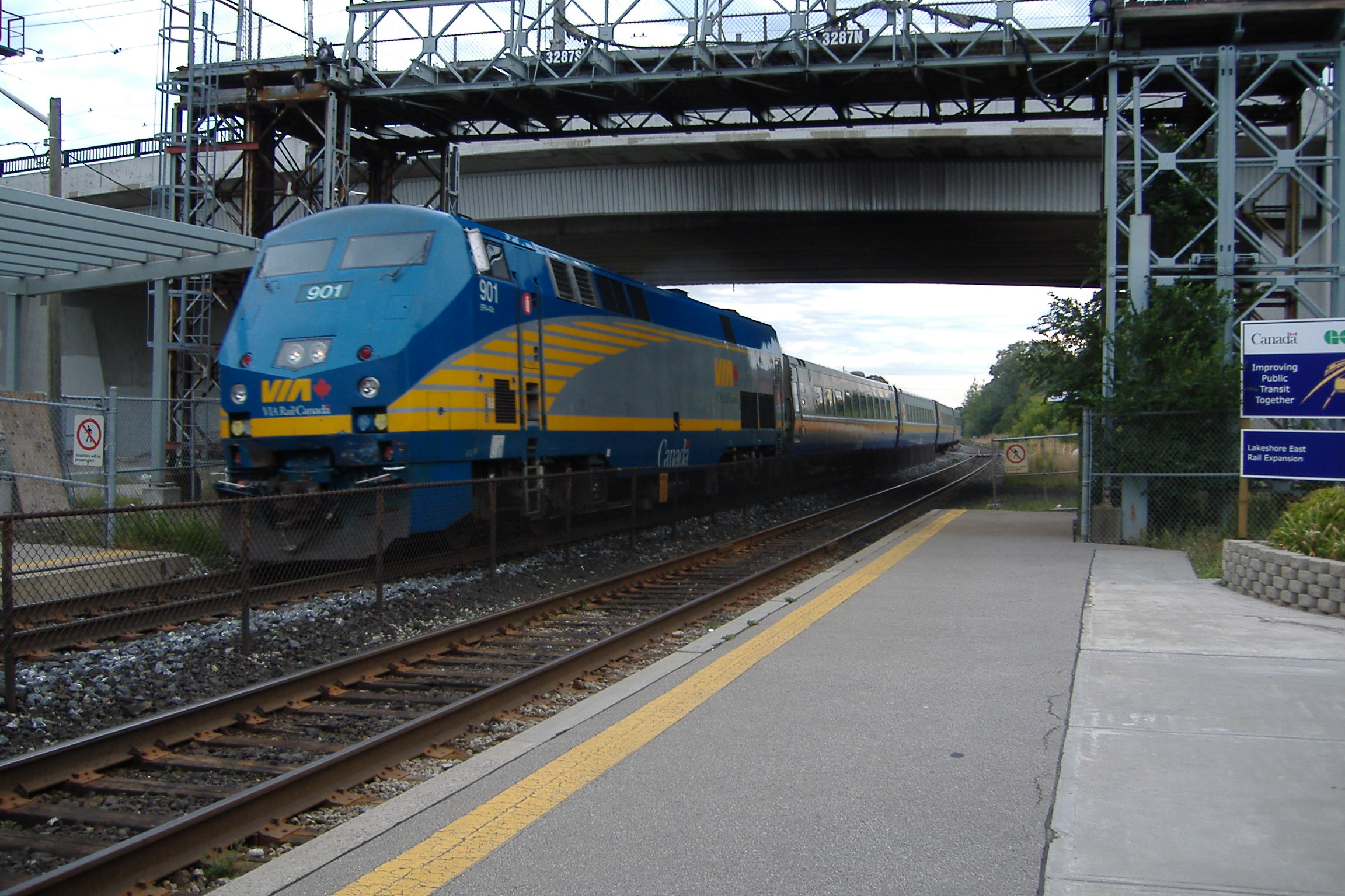 VIA 66 leaving Toronto on its way to Montreal